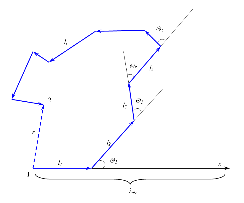 neutron diffusion